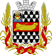 Coat of arms of Cherepovets 1864 proposed